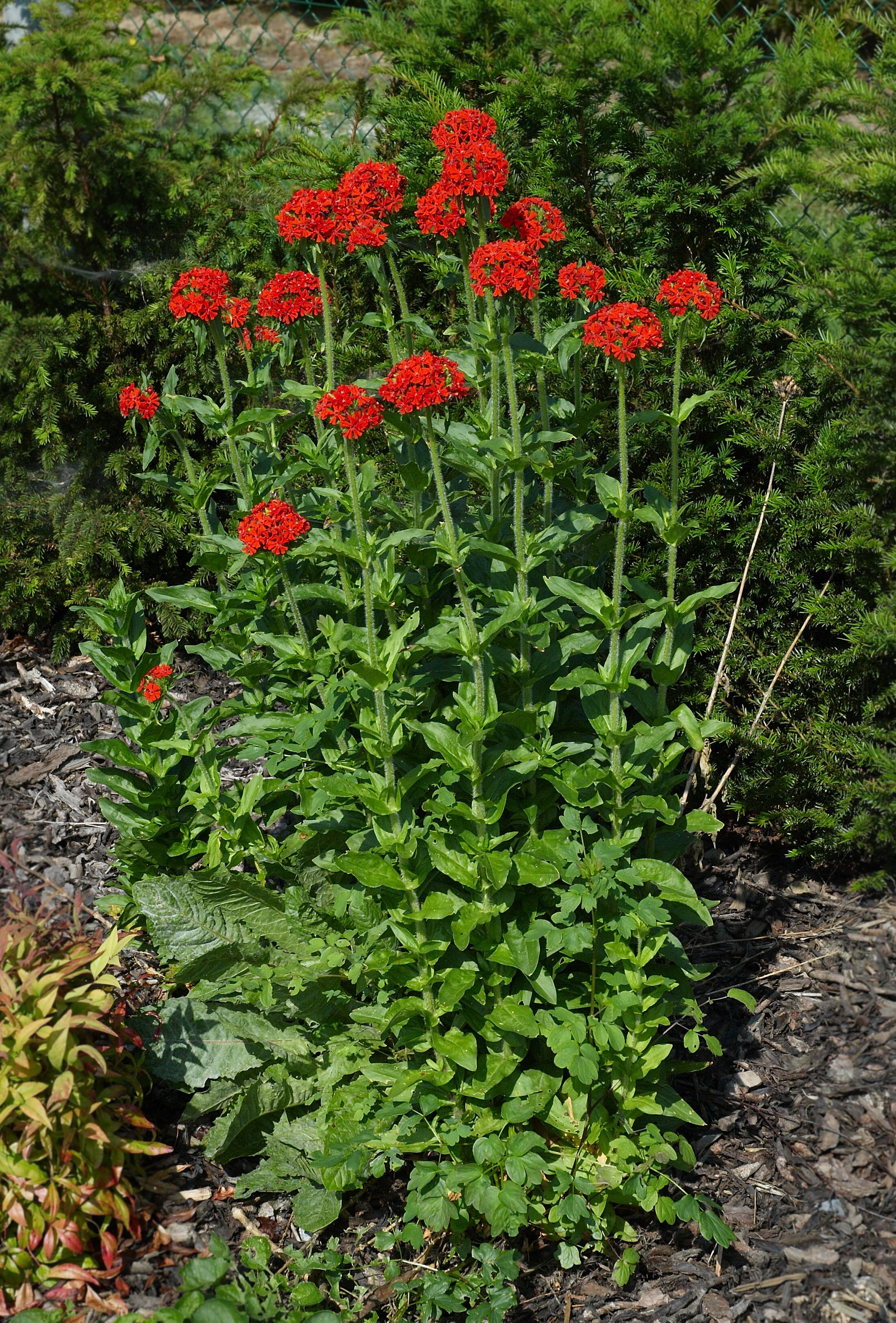 Maltese Cross, Jerusalem Cross, Dusky Salmon, Burning Love, or Nonesuch